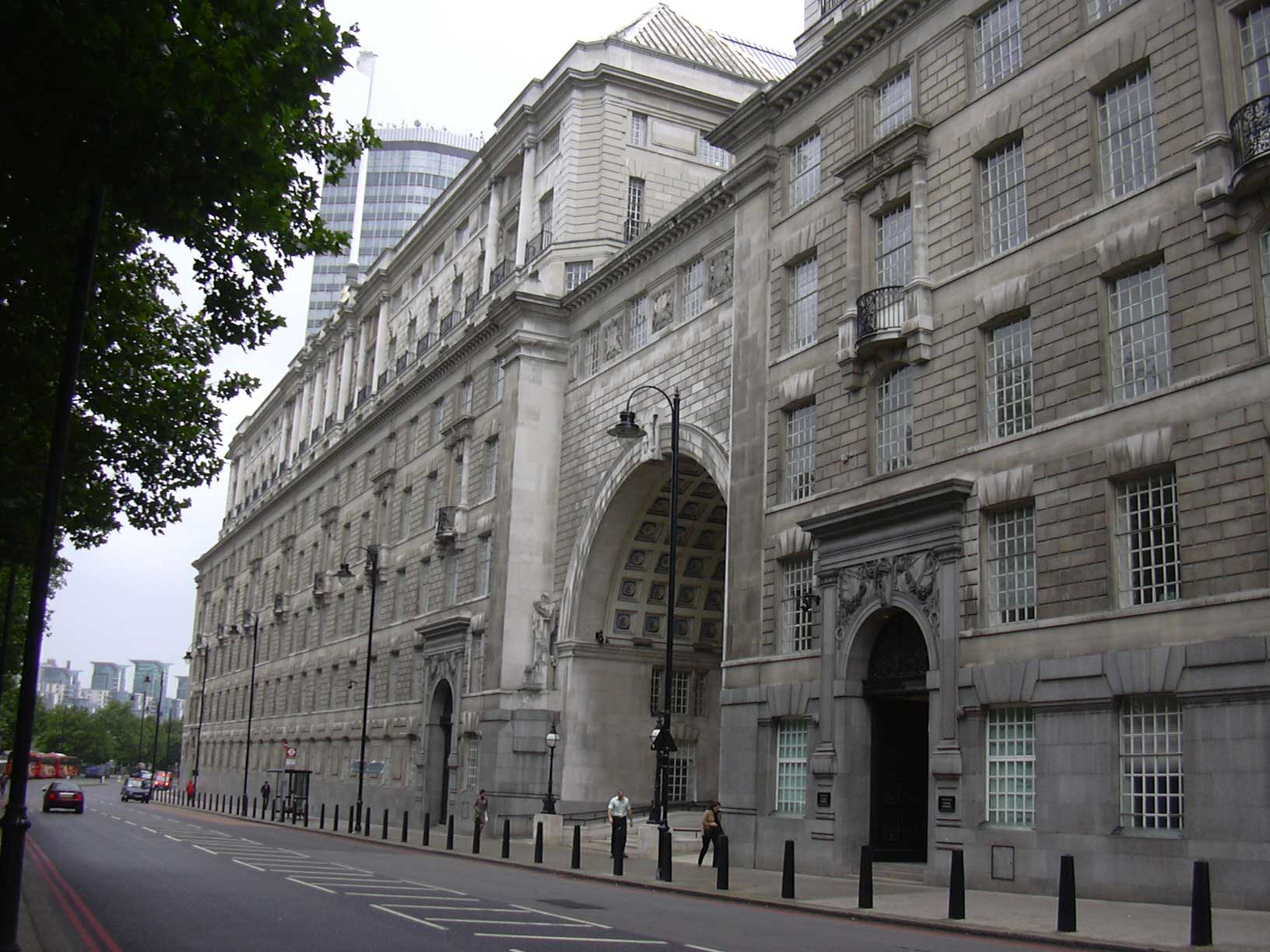 Thames House on Millbank, London